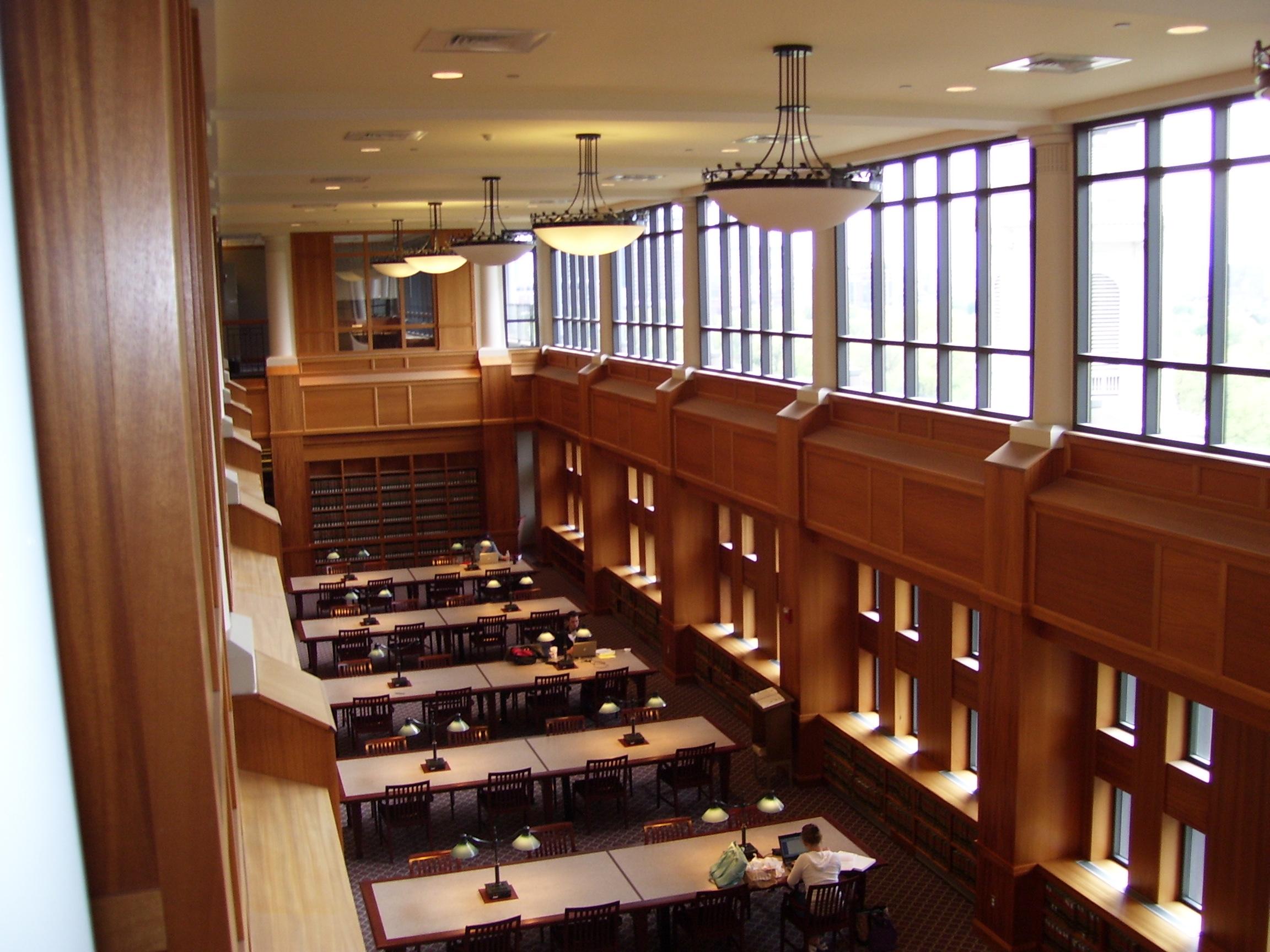 My photo of Suffolk Law Library in 2008 in Boston, MA